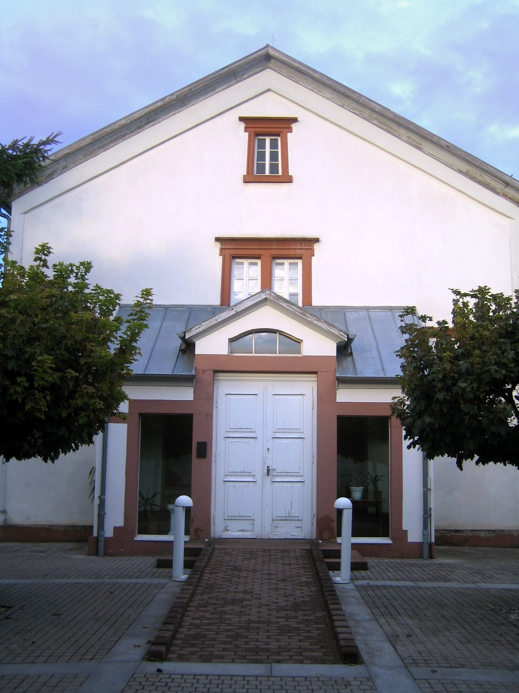 Synagogue, Rülzheim, Rhineland-Palatinate; Architekt: August von Voit